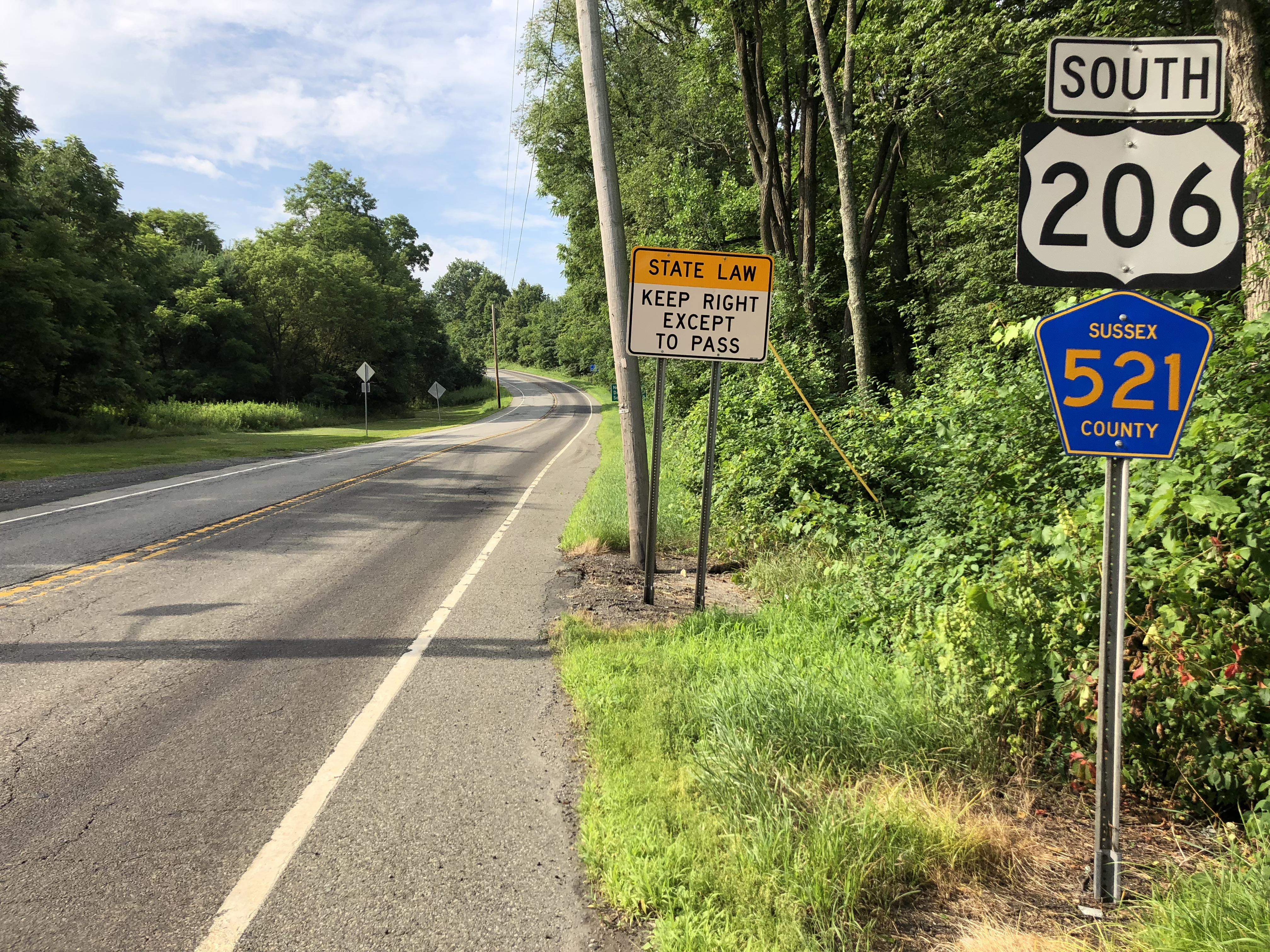 View south along U.S. Route 206 and Sussex County Route 521 just south of Old Mine Road and Sussex County Route 650 (Deckertown Turnpike) in Montague Township, Sussex County, New Jersey